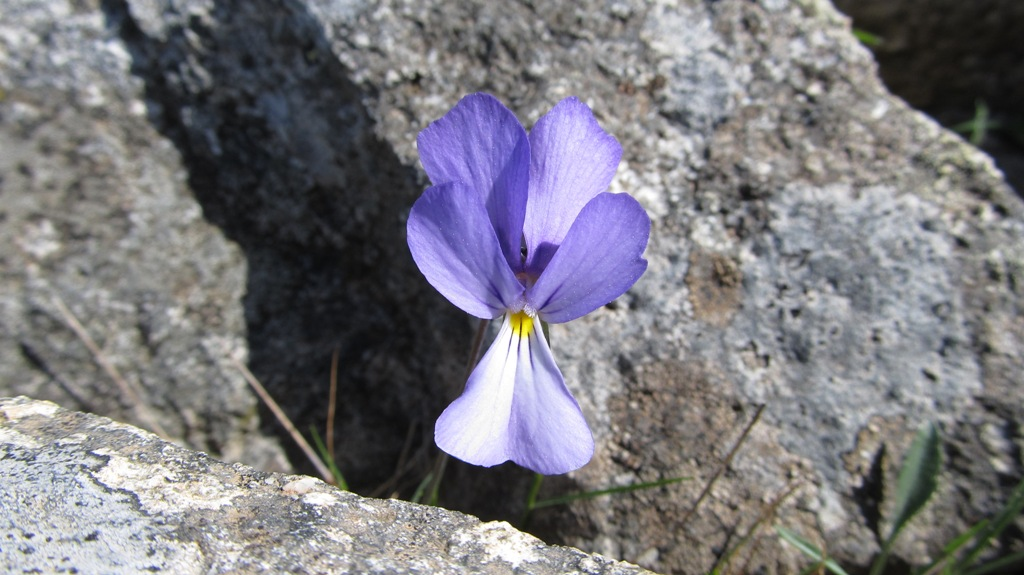 Viola corsica ssp. ilvensis